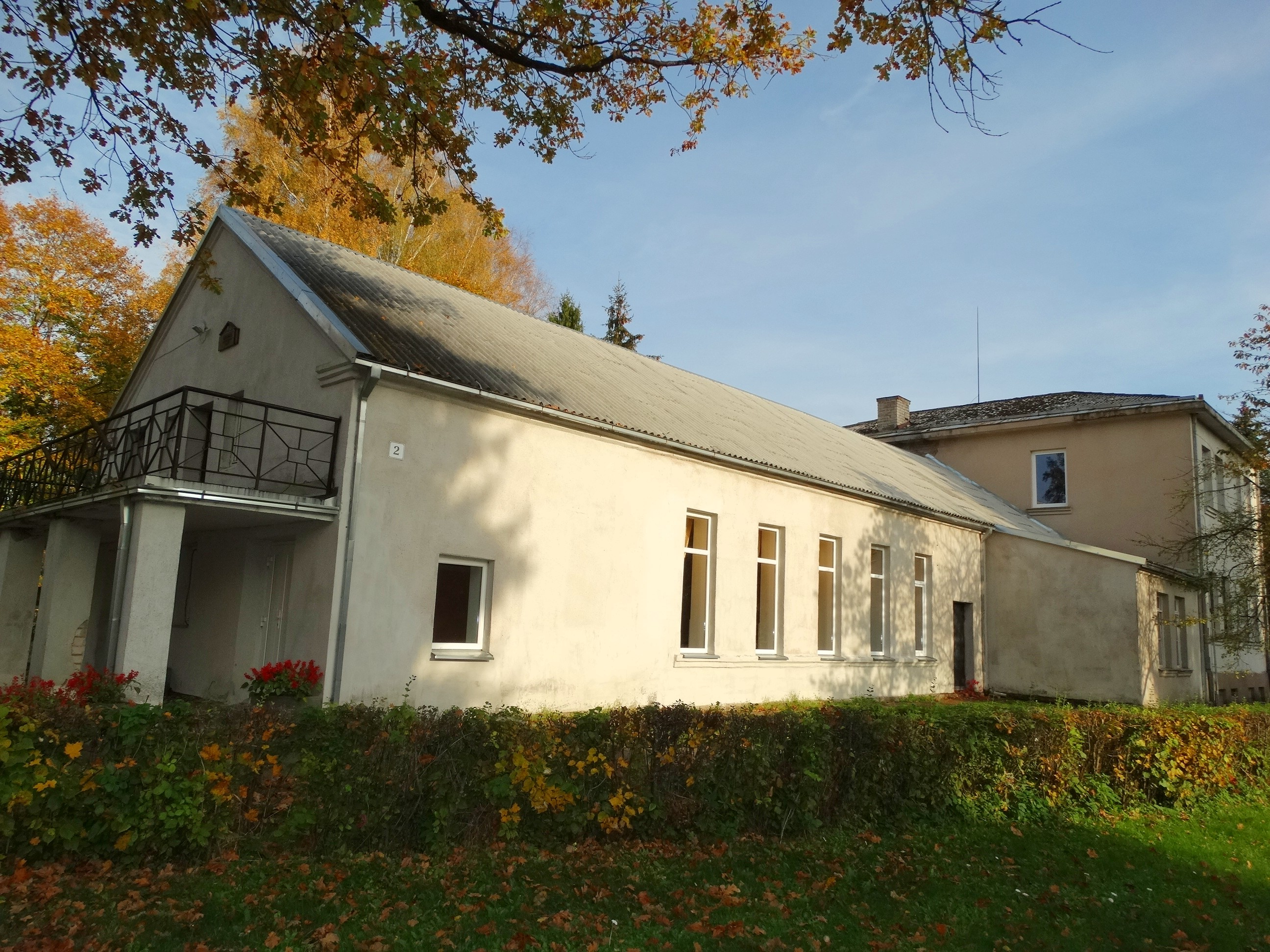 Centre of culture, Panoviai, Šakiai district, Lithuania